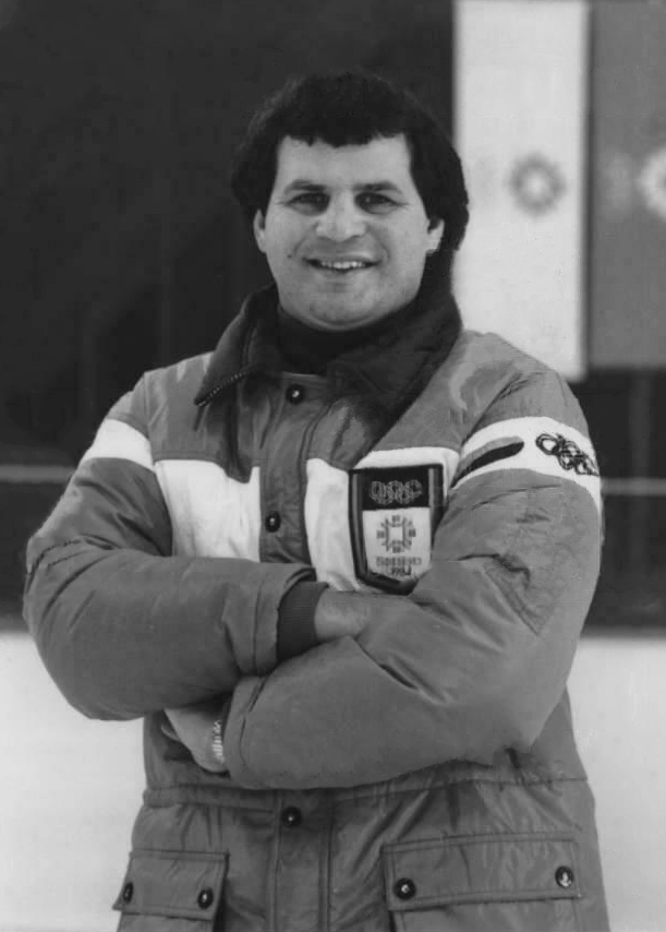 1984 Press Photo Ice Hockey player Mike Eruzione - pis08642